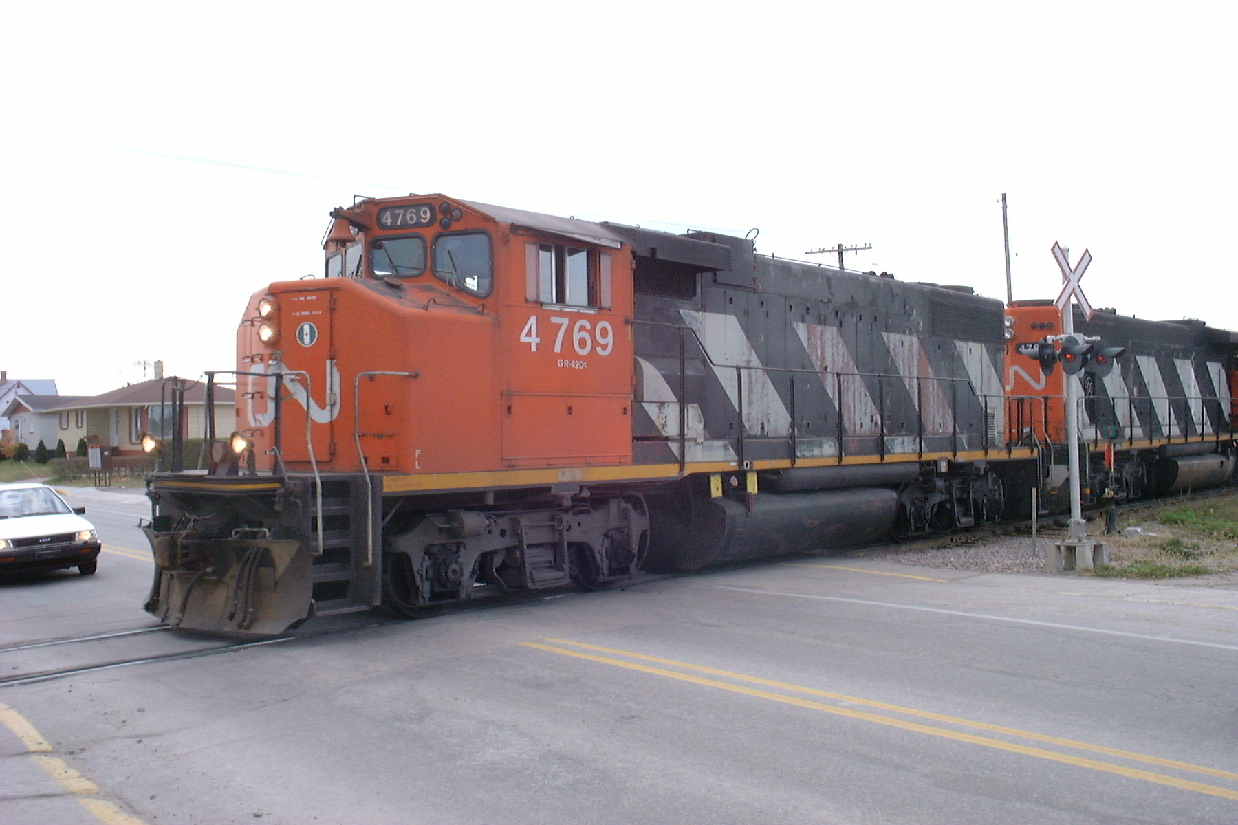 Canadian National 4769, an EMD GP38-2W, St Félicien, Québec, Canada